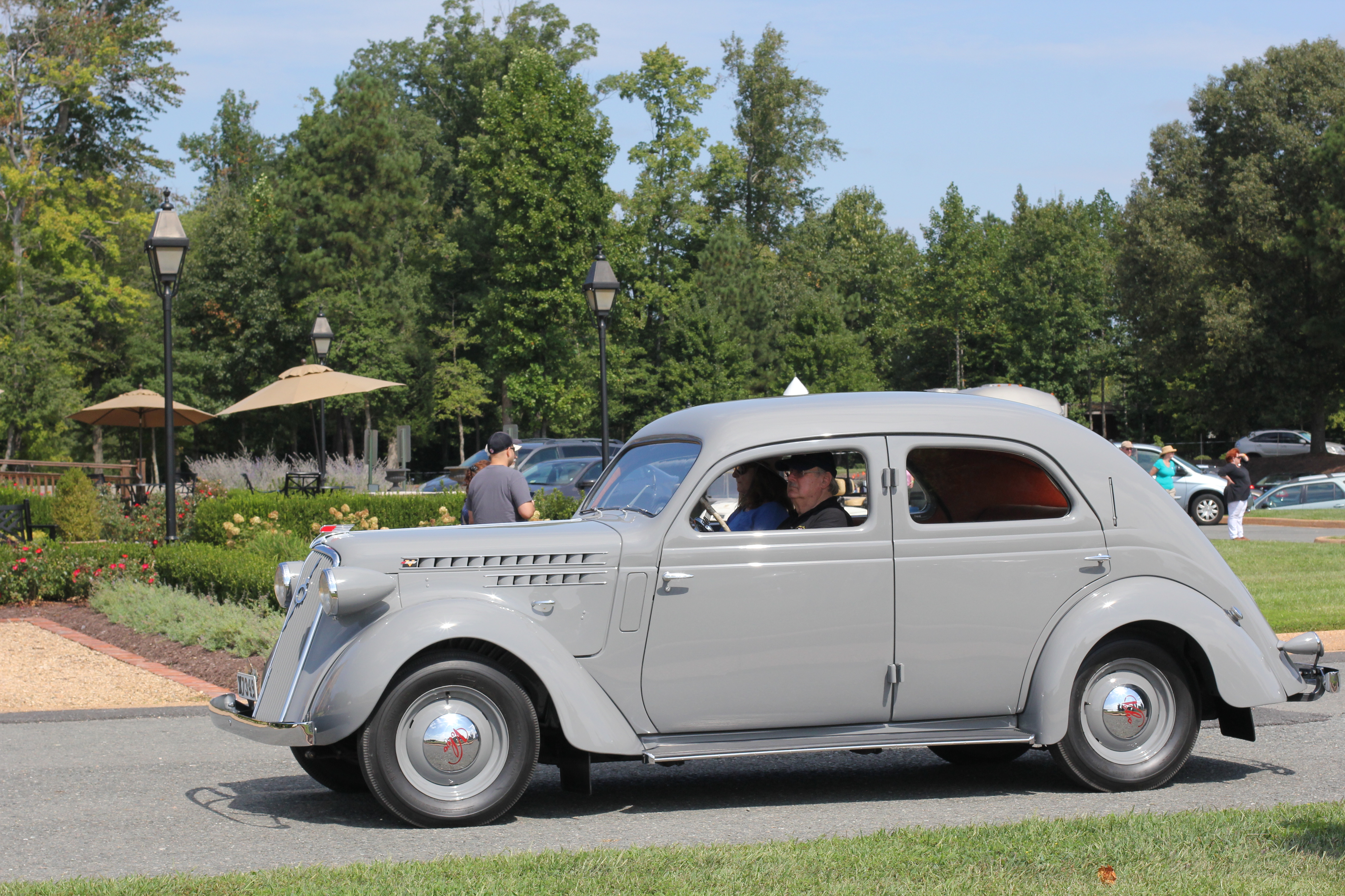 1937 Volvo PV52Classics on the Green, New Kent Virginia, USA. 20 September 2015